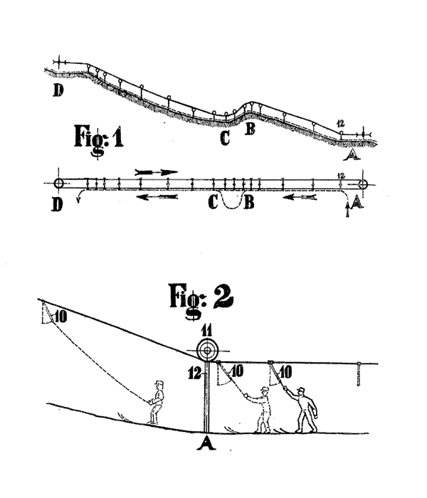 Swiss Patent CH 147 025